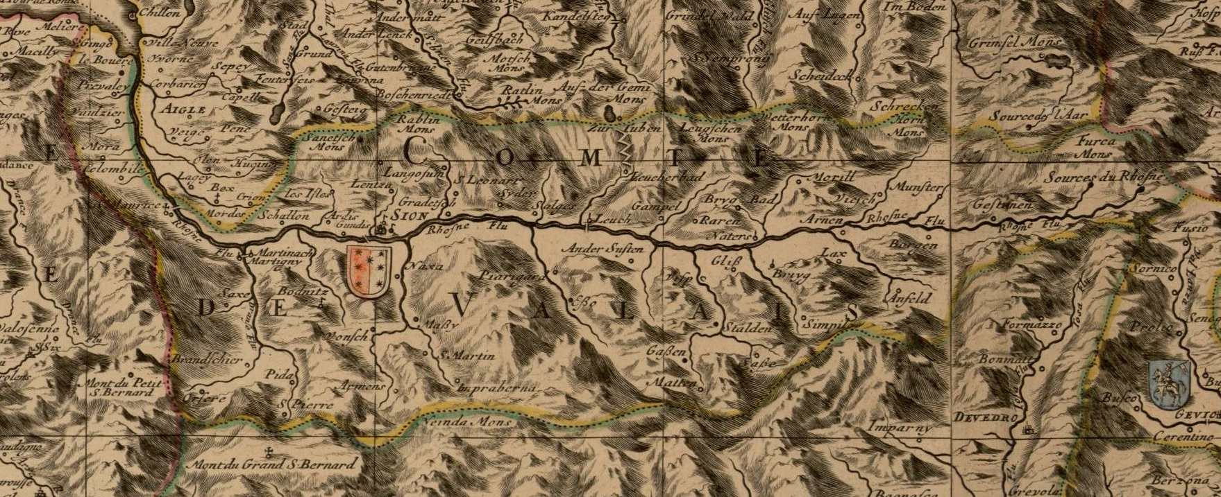 Map of the Valais, detail of La Suisse divisée en ses treze cantons, ses alliez & ses sujets / par le Sr. Sanson [Guillaume Sanson, 1633-1703] (1693). The hand-colourisation is from an unknown (later) date, c.f. alternative versions here and here.